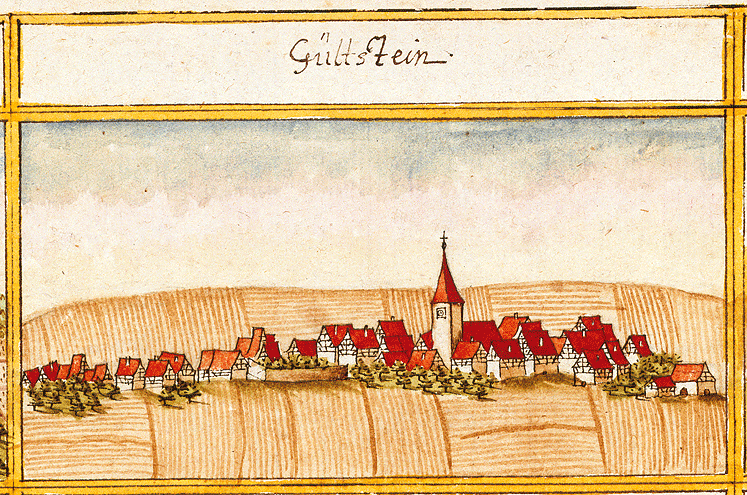 View of Gültstein, Herrenberg, from the forest register books created by Andreas Kieser